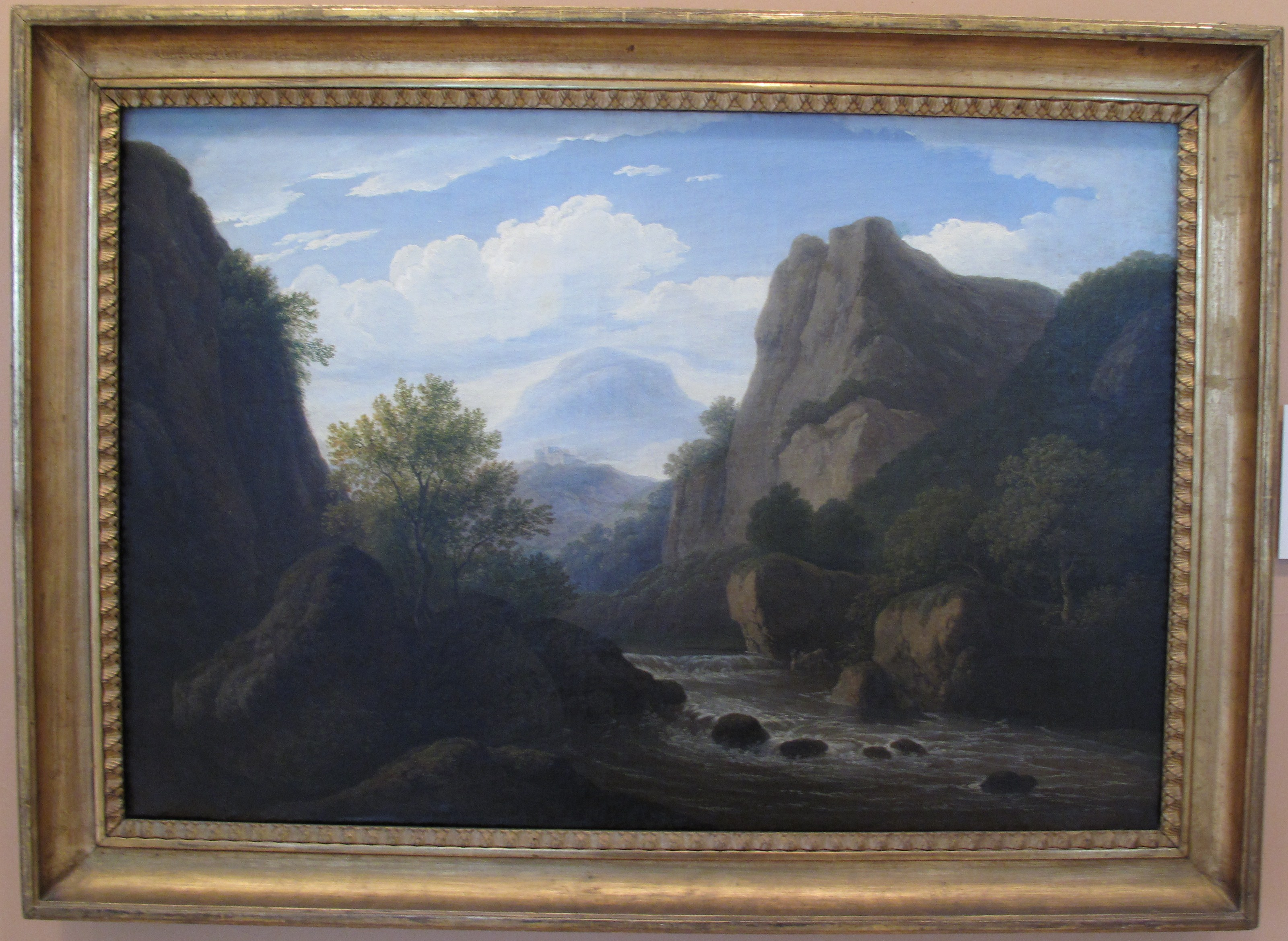 Mountain Landscape.